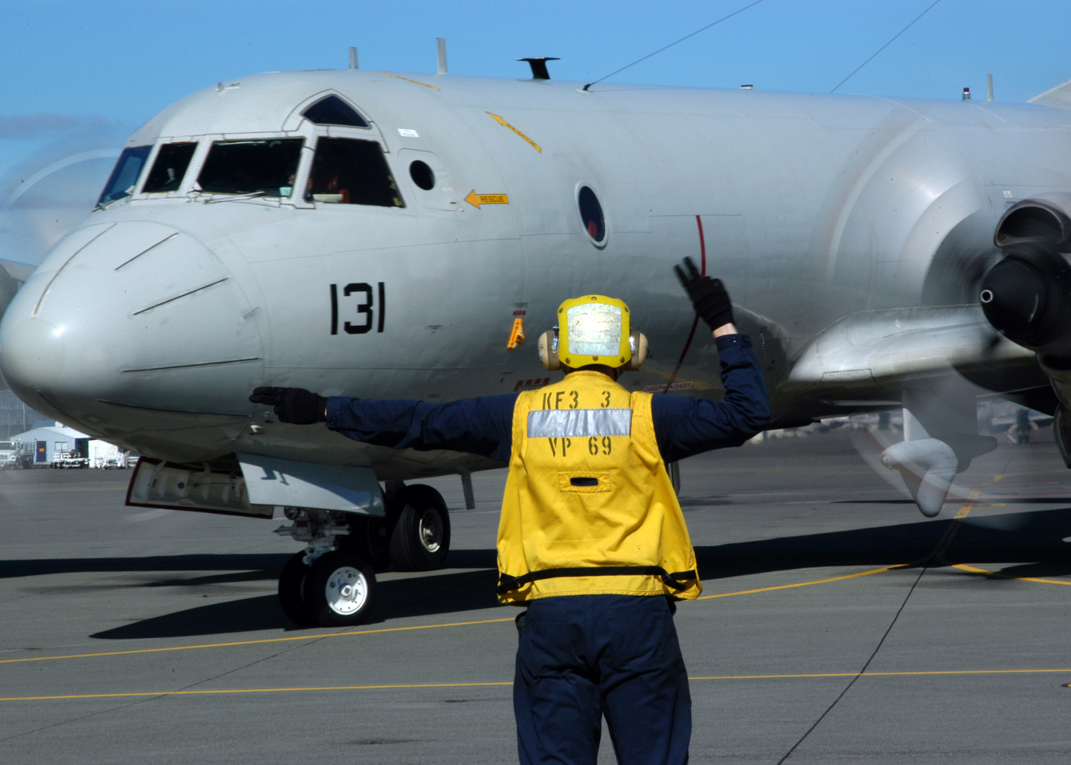 Naval Air Station Whidbey Island, Wash (Oct. 1, 2004) - Aviation Structural Mechanic 2nd Class Mike Bell, signals the taxiing instructions to a P-3 Orion aircraft assigned to the “Totems” of Patrol Squadron 69 (VP-69).